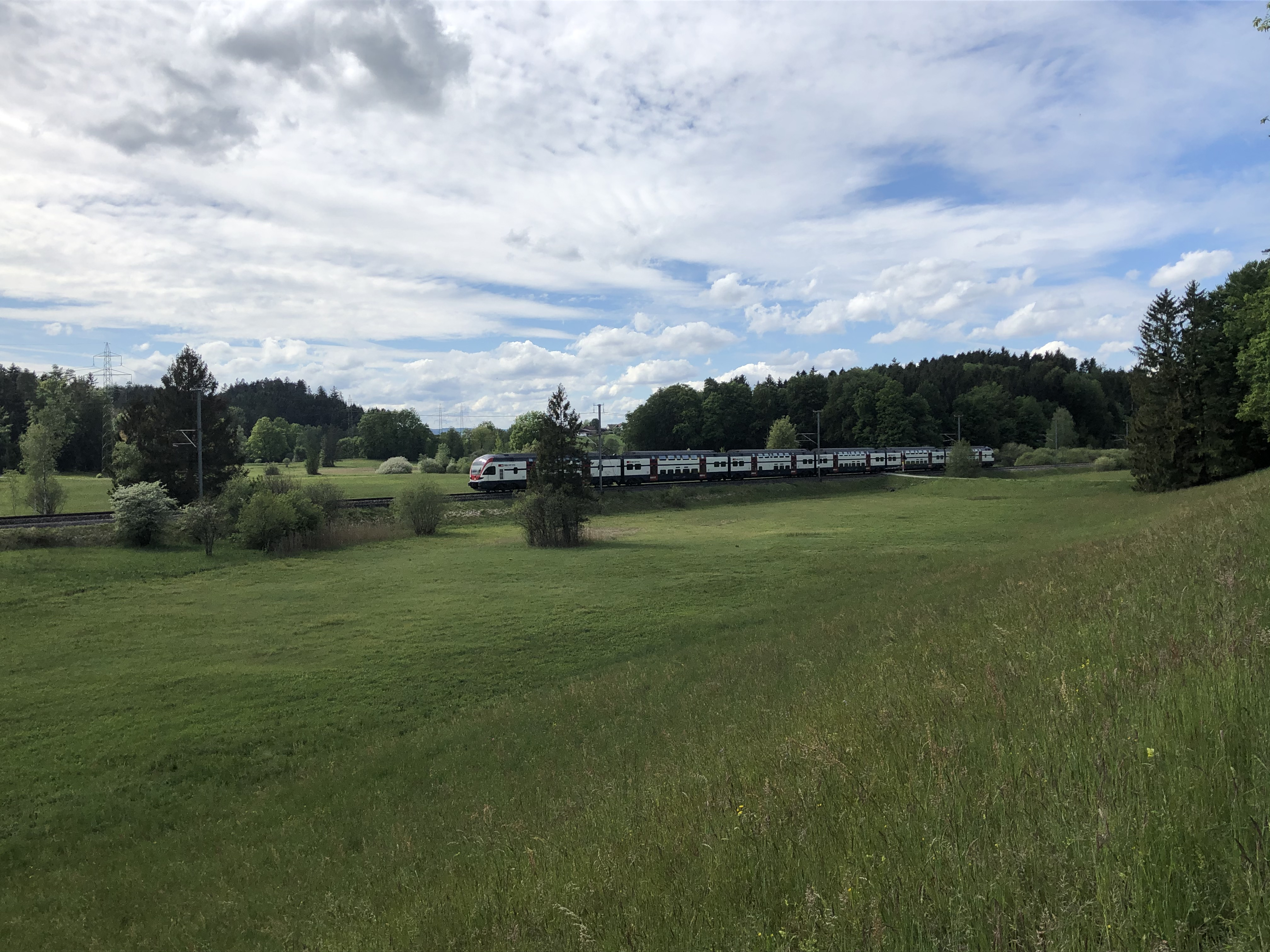 A train of the S-Bahn Zürich on its way through the bogland with drumlins between Wetzikon and Bubikon in Zürcher Oberland, Switzerland